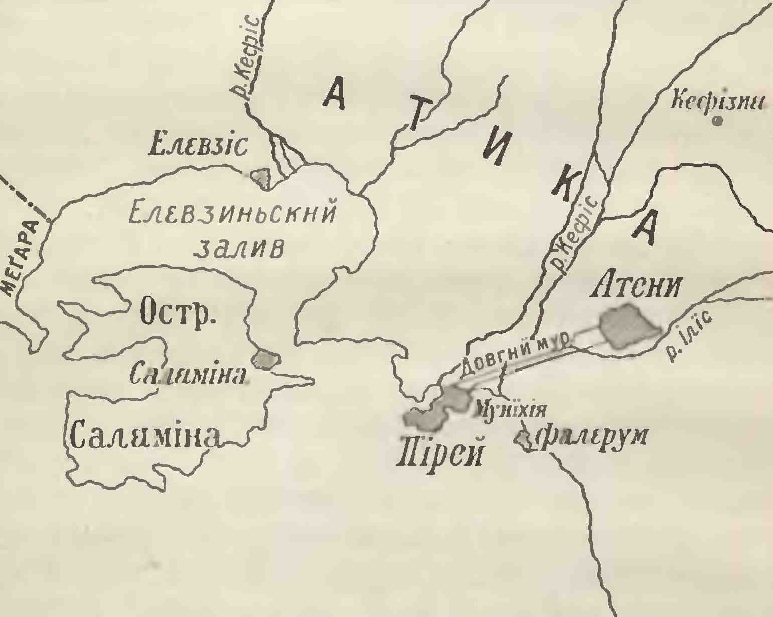 Battle of Salamis according to Myron Korduba.